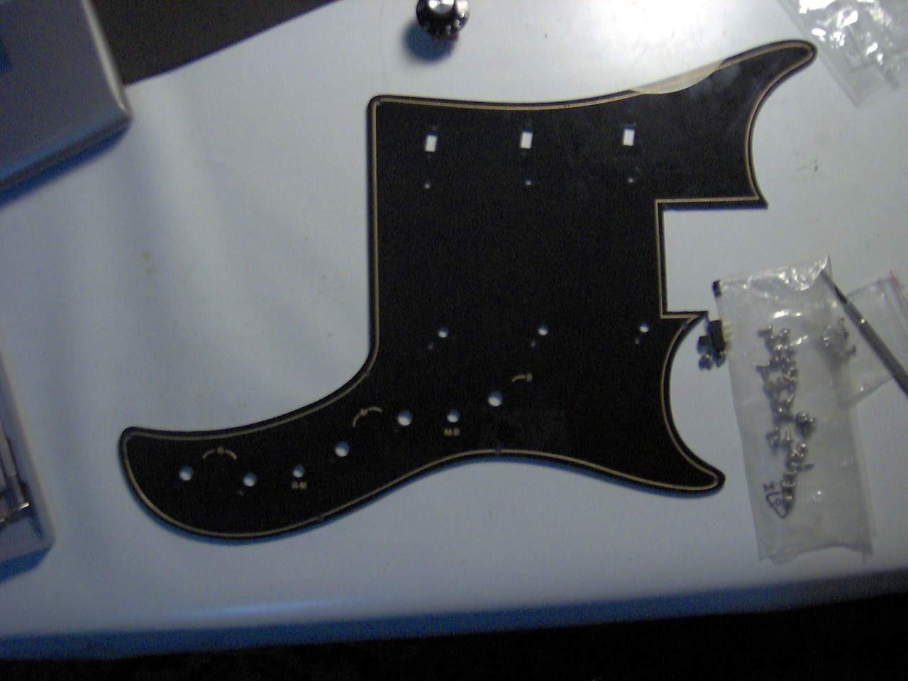 Pickguard of a Musima Eterna guitar.